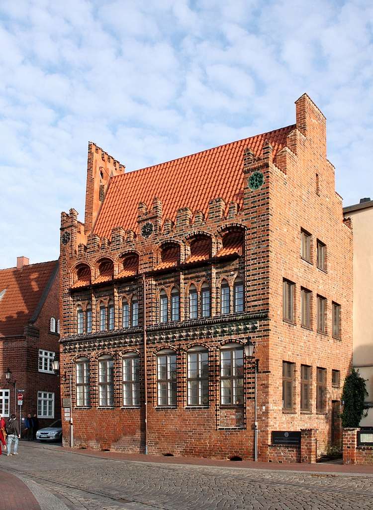 This photo shows the archidiakonat in Wismar. The former house of the main priest at Marienkirche is a brick gothic building, erected around 1400.